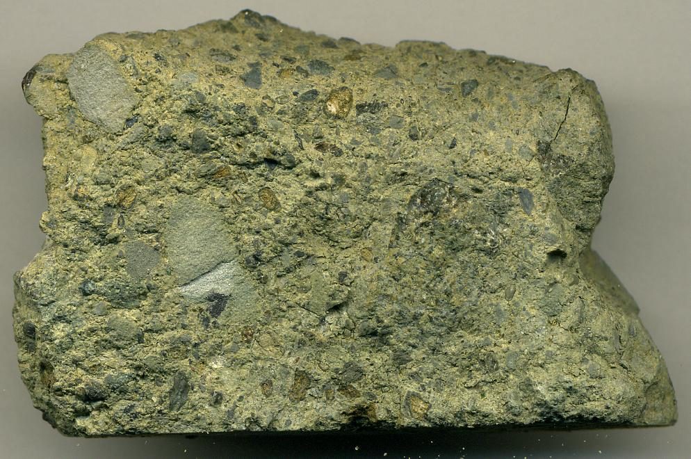 Bellsbank Kimberlite from the Cretaceous of South Africa (6.6 cm across at its widest). Kimberlites and lamproites have tremendous economic importance because they are host rocks for gem-grade and industrial-grade diamonds. Kimberlites & lamproites are unusual igneous bodies having overall pipe-shaped geometries. Their mode of formation is only moderately understood because they have not been observed forming. Kimberlites & lamproites are known from scattered localities throughout the world - only some are significantly diamondiferous. Classic localities for diamonds are India and Brazil. Africa was also discovered to have many kimberlites and is world-famous for producing large numbers of diamonds. Other notable diamondiferous kimberlite-lamproite occurrences include Russia, China, northwestern Australia, and northwestern Canada. Kimberlites are named for the town of Kimberley, South Africa. Several kimberlite pipes occur in the Kimberley area. Kimberlites have a gently tapering-downward, pipe-shaped cross-section. Lamproites have a cross-section more closely resembling that of a martini glass. Here’s a sample from South Africa’s diamondiferous Bellsbank Kimberlite. It has the typical appearance of a kimberlite: a jumbled mix of crystals and clasts. Dirty green-colored, serpentinized & partially serpentinized olivines with dark greenish-gray reaction rims are common and conspicuous. Scattered phlogopite mica and garnet are also present. The Bellsbank Kimberlite intruded through Proterozoic-aged dolostones of the Ghaap Group during the late Early Cretaceous (Aptian Stage, 118 Ma). Locality: Bellsbank Mines, near Mount Rupert, north of Kimberley, north-central South Africa